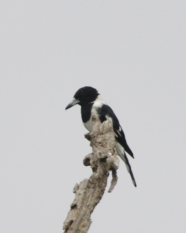 Pied Butcherbird (Cracticus nigrogularis) Capertee Valley,Blue Mountains, NSW, Australia 10th. February 2008 Habitat found in: 690V1266